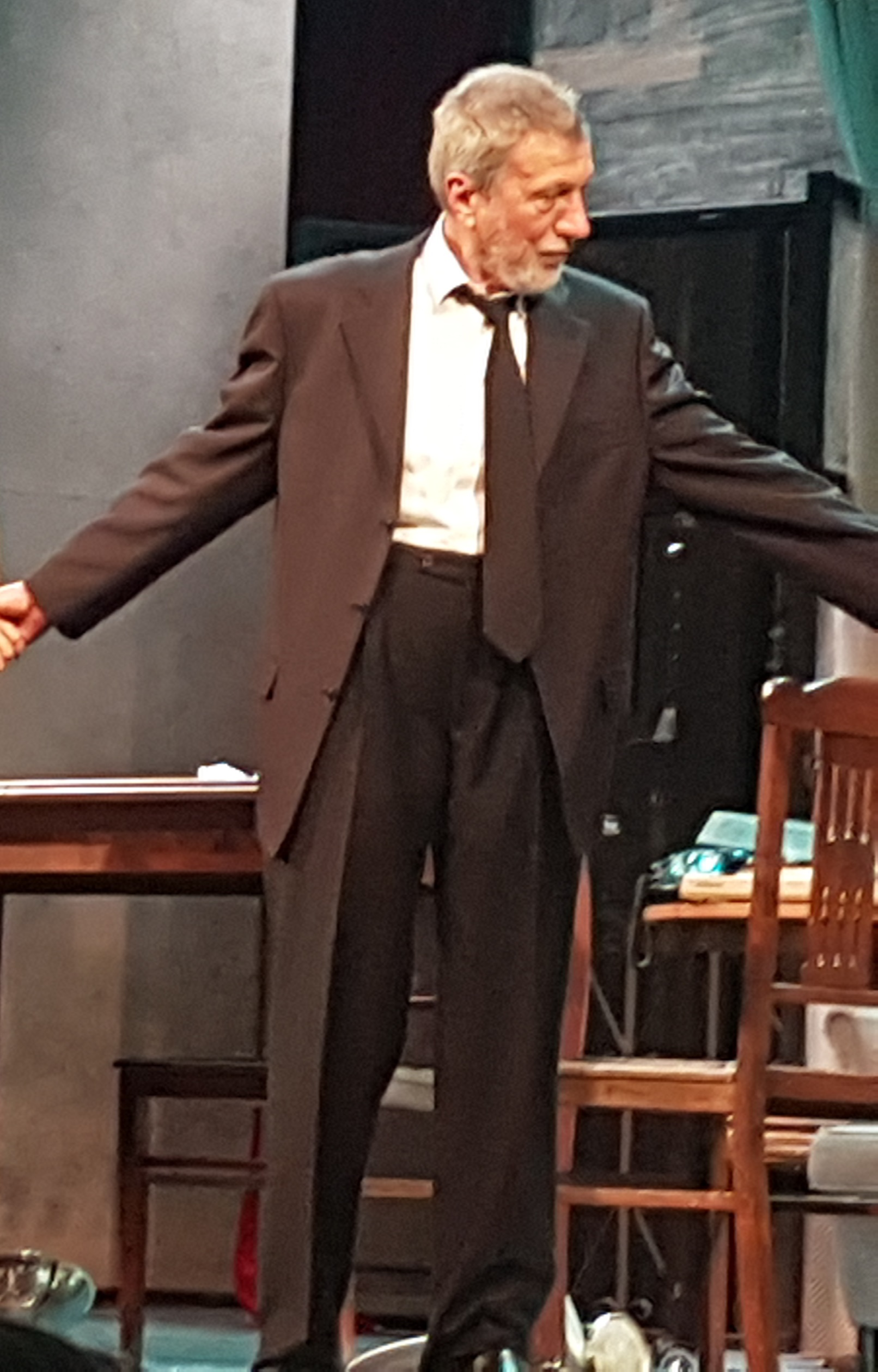 Giannis Fertis at the play "From the Silence to Spring", director Lilly Meleme, scenario Leonidas Proussalides (Jan 2017, at the Dimitris Horn Theatre)